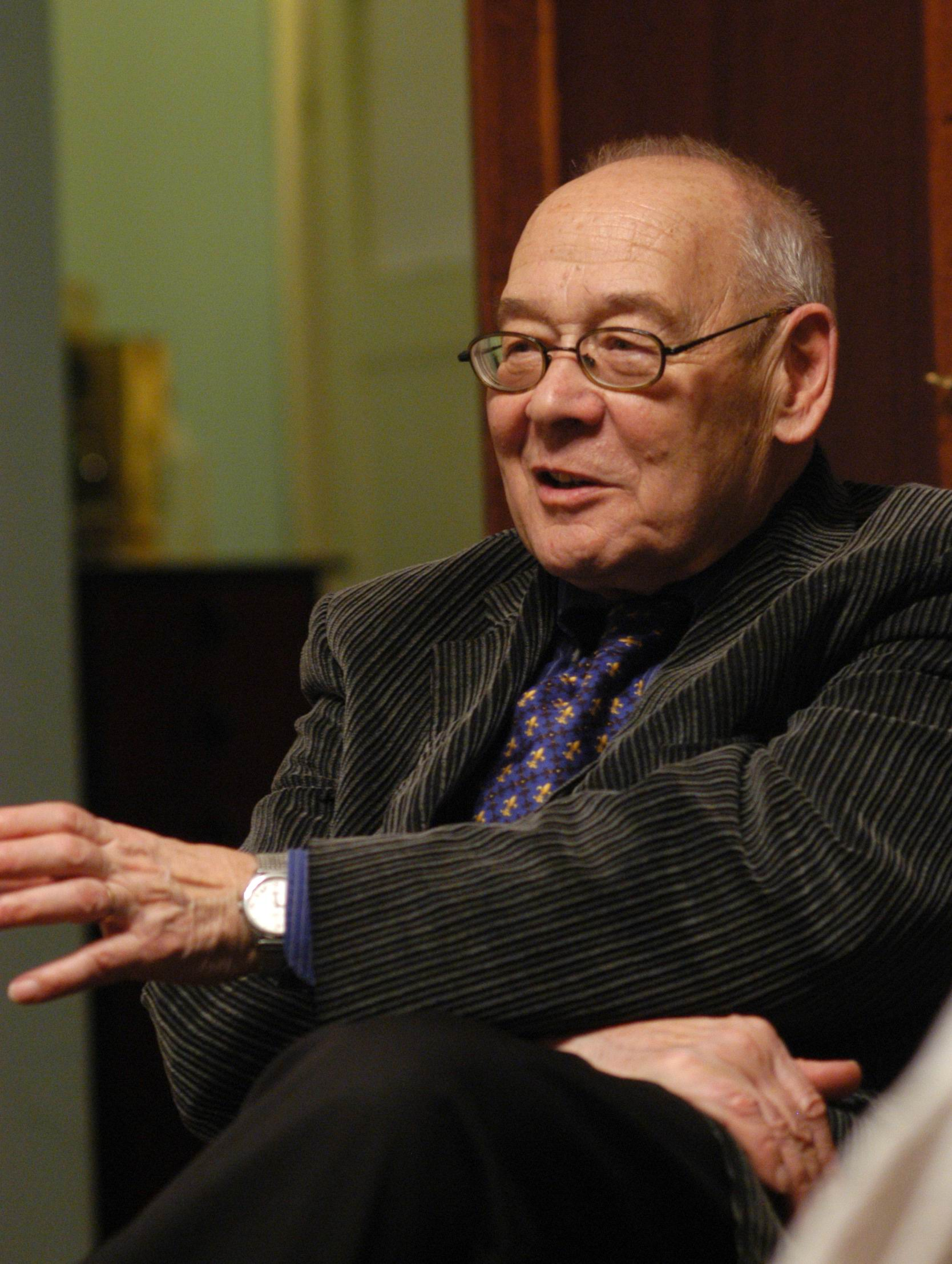 Professor Olgierd Czerner - architect and historian of art.